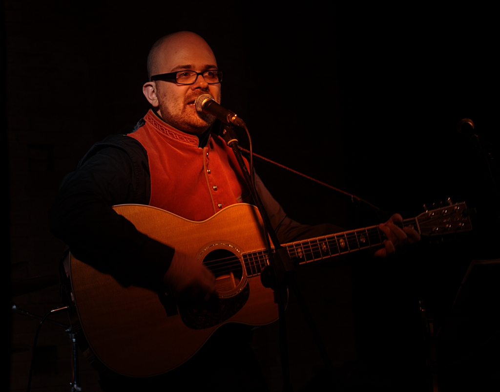 Alessio Lega